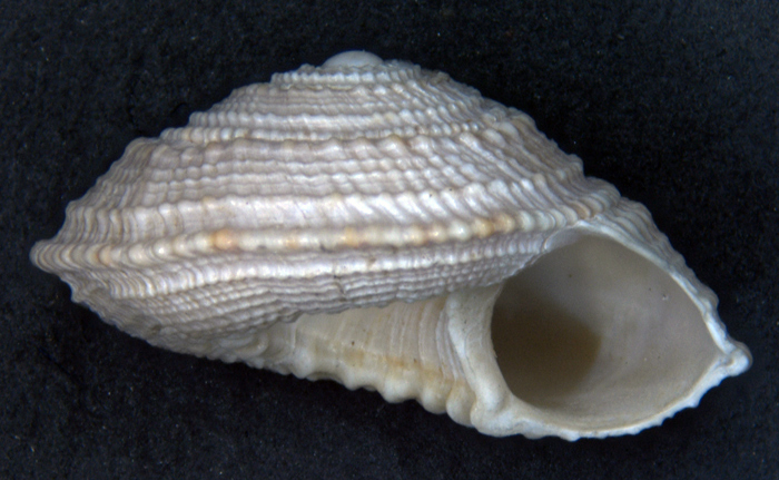 The specimen is a voucher of Cavallari, Salvador & Simone (2013). It is the only known adult specimen of S. cabrali so far (as of feb/2014). See the species' wiki article for the complete reference and other information. Apertural view of an adult empty shell of Solatisonax cabrali. This specimen is deposited in the Museum of Zoology of the University of São Paulo collection (catalog number MZSP 50653).